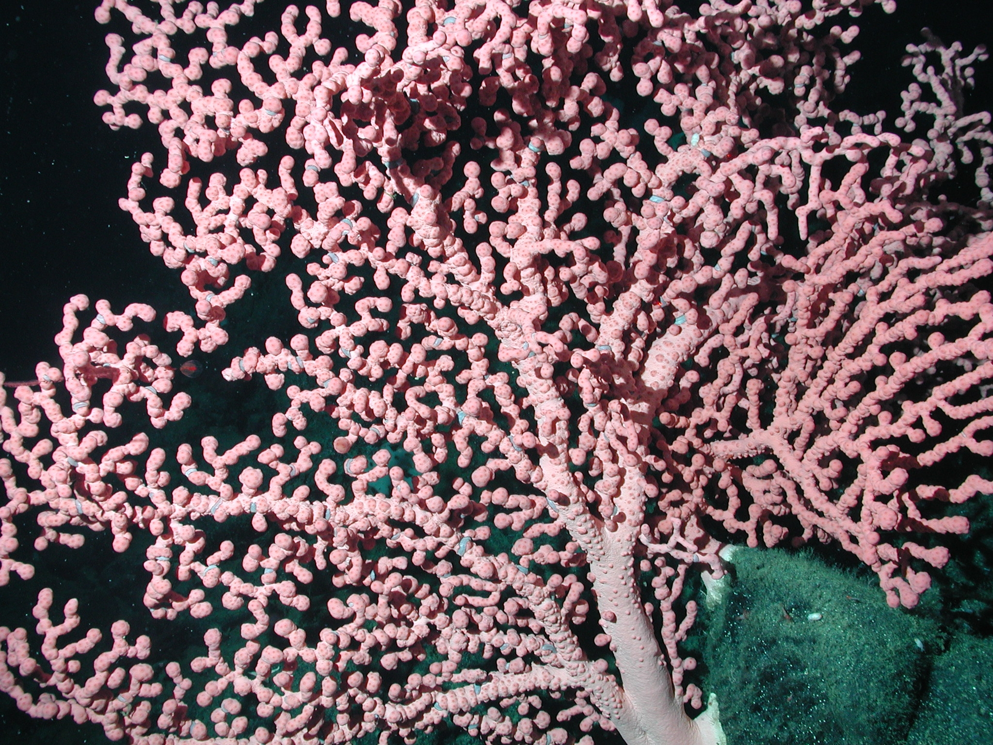 Bubblegum coral (Paragorgia arborea). California, Davidson Seamount.